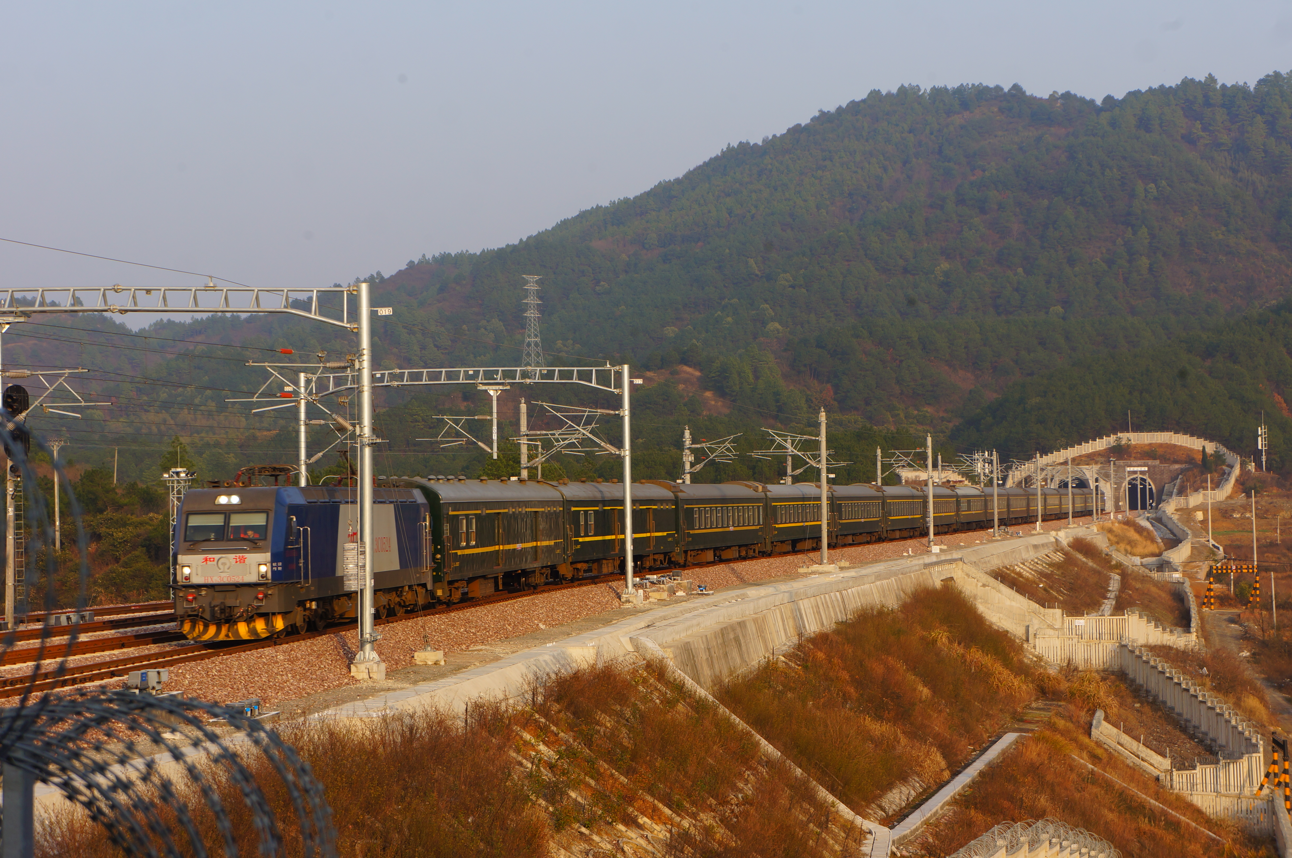 201712 HXD3C-0524 hauls K529 (Hangzhou to Chengdu) enters into Changshan Station